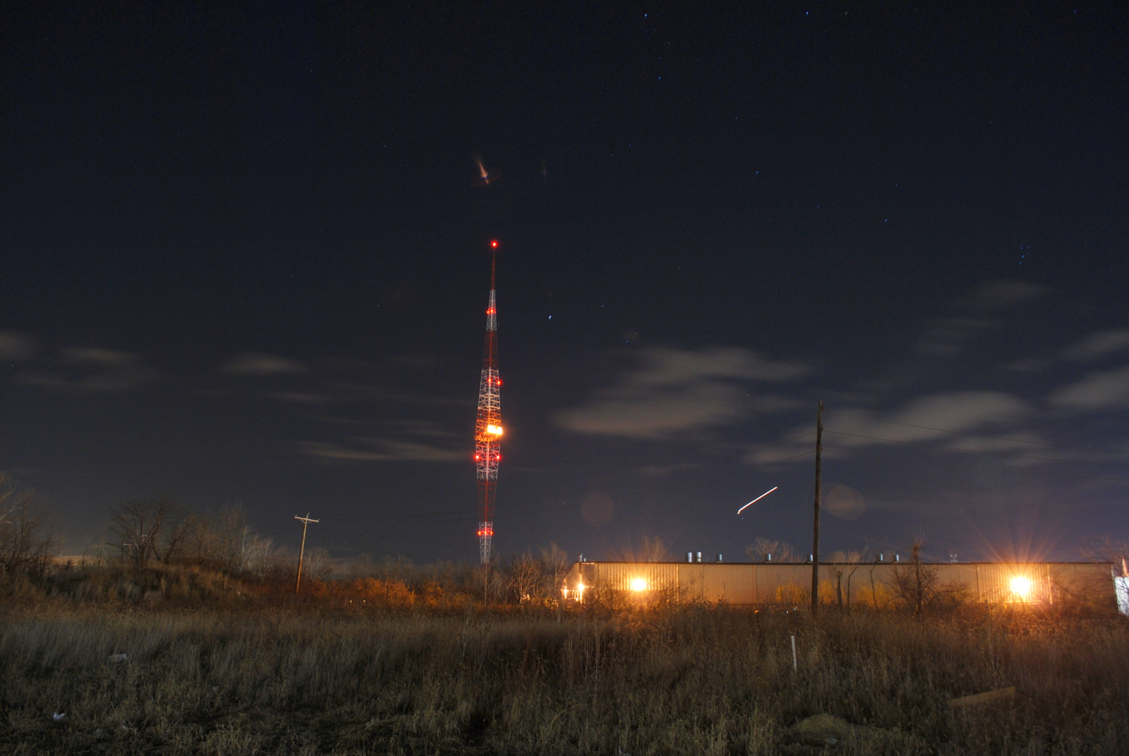 A Blaw-Knox tower in Mason, Ohio, United States. The guyed, diamond-shaped radio mast broadcasts clear channel radio station WLW (700 kHz Cincinnati).